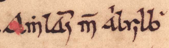 An excerpt from folio 33v of Oxford Bodleian Library MS Rawlinson B 489 (the Annals of Ulster). The excerpt concerns Amlaíb mac Illuilb, King of Alba (died 977).